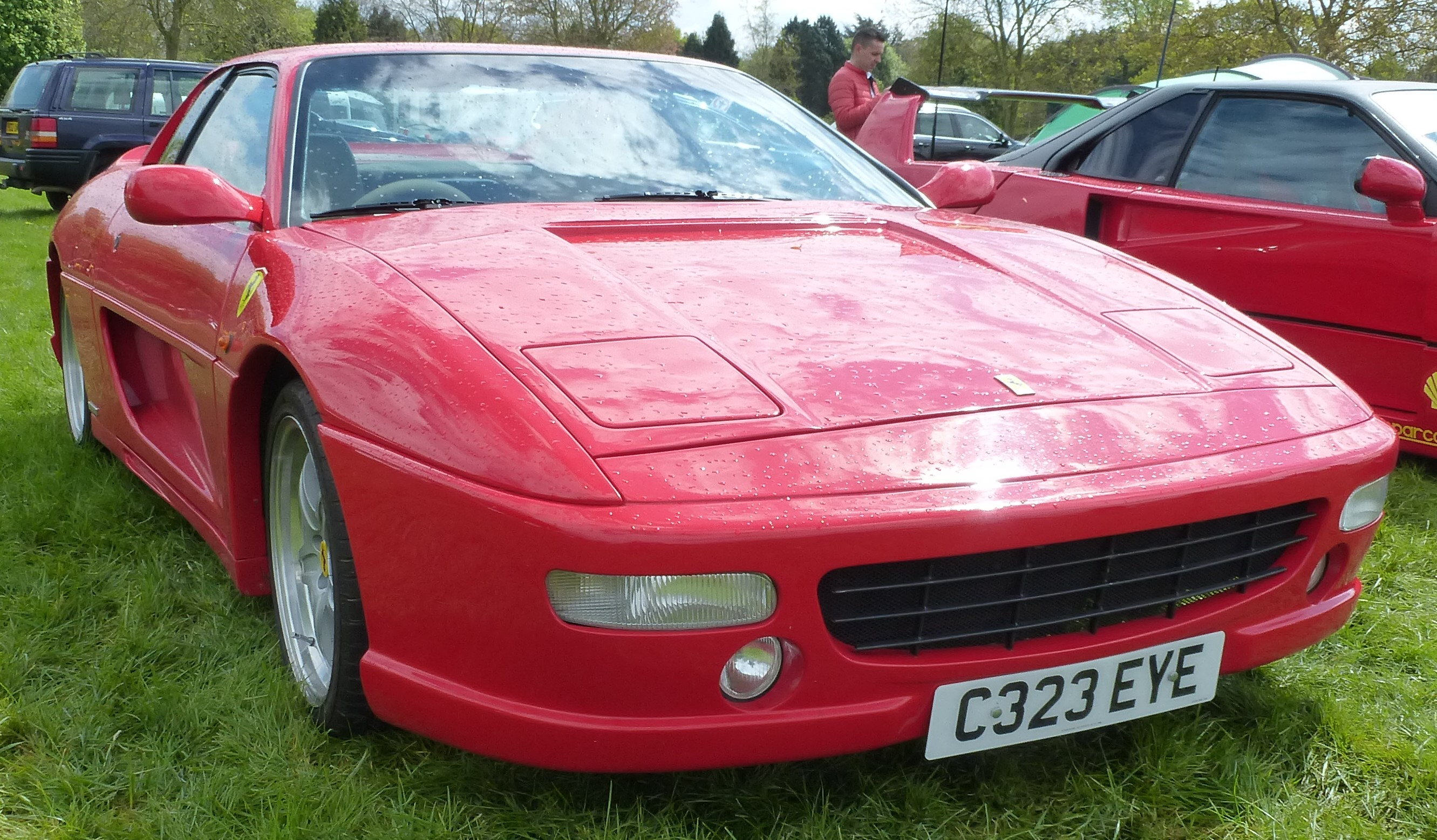 Fiero Factory F 282